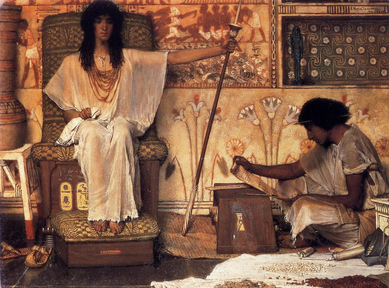 "Joseph, Overseer of Pharaoh’s Granaries," 1874. Oil on panel, 13 3/4 x 18 in. Signed and inscribed upper right: L. Alma-Tadema op CXXIV. Dahesh Museum of Art, New York City, Accession Number 2002.38.